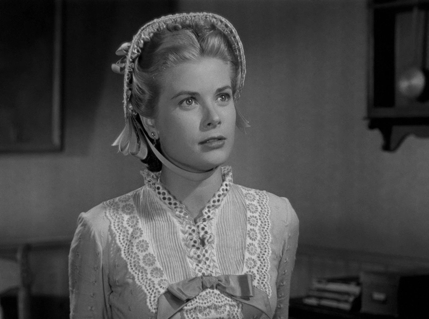 Screenshot of Grace Kelly from the film High Noon.